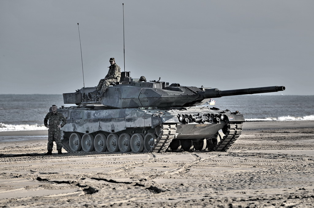 Each year on Prinsjesdag (day of the 'Prince lings' or Day of the Queen’s Speech) Dutch queen Beatrix addresses a joint session of the Houses of Parliament in the Ridderzaal (Hall of Knights) in The Hague. Today the final rehearsal for the equestrian escort on the beach of Scheveningen.